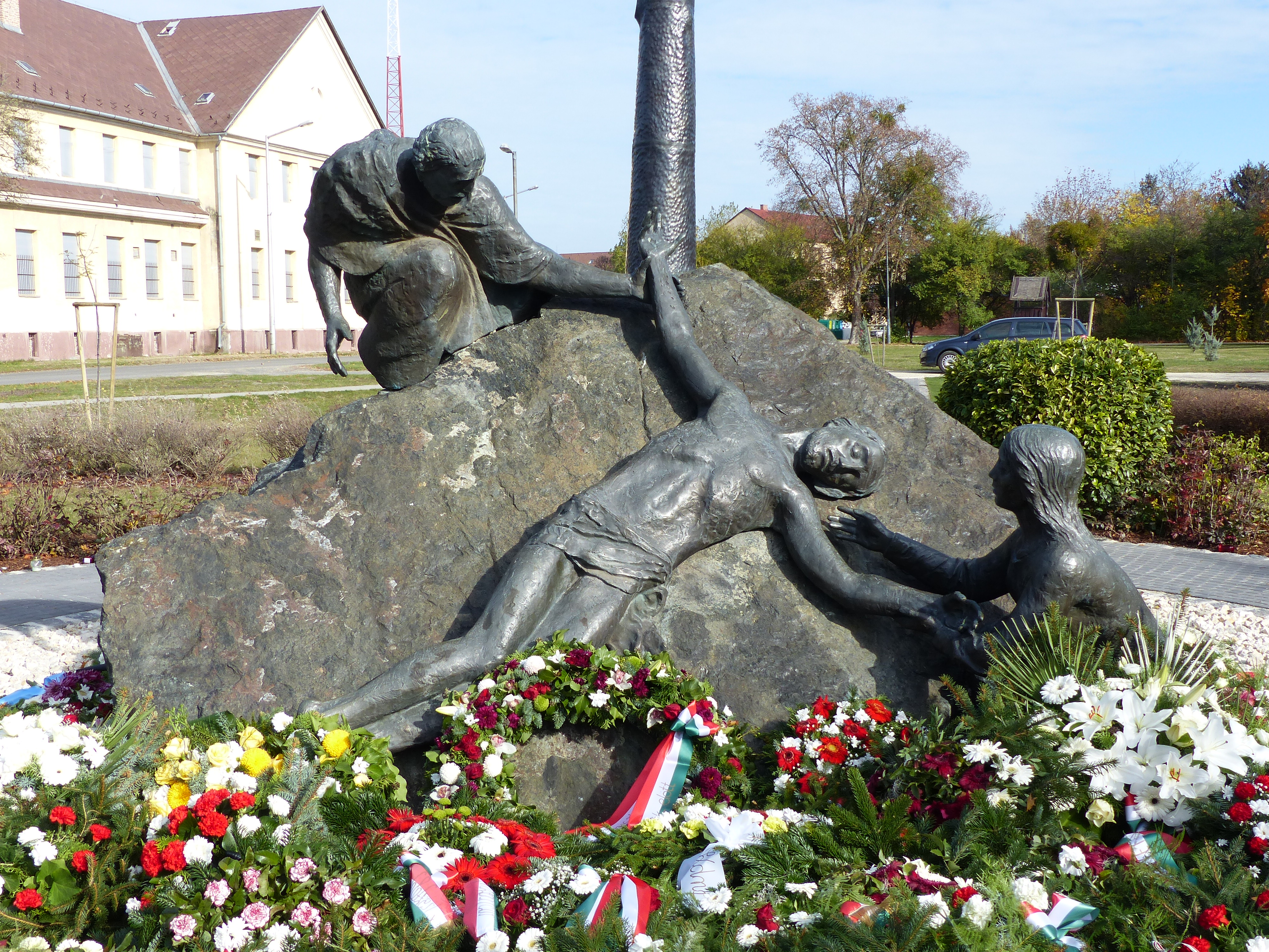 1956-os emlékmű. A felvétel 2016. október 31-én készült Mosonmagyaróváron, a Gyász téren. 1956 október 26-án az ÁVH határőr laktanya előtti tömegbe lőttek az ÁVH-sok. Az ismételt sortűz a menekülők hátát érte. A tömeggyilkosságban a visszaemlékezők szerint 104-en haltak meg. A laktanya parancsnoka Dudás István (Abádszalók 1924 augusztus 20 - Kiskunhalas, 2002 június 28) volt. Források: Böröndi Lajos: Dokumentumok 1956 - Mosonmagyaróvár Integratio, Bécs, 2006. (hozzáférés: 2016.10.31).